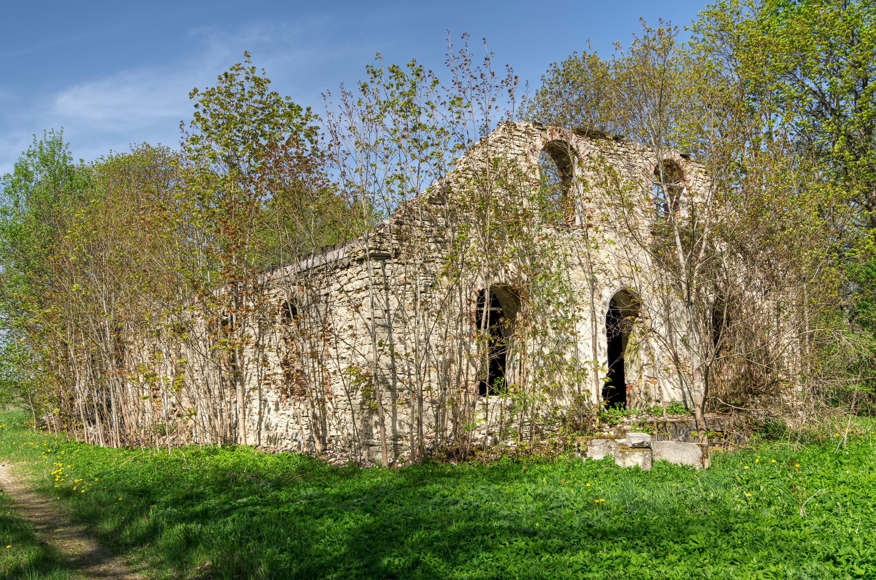 Ruins of Udeva Manor house